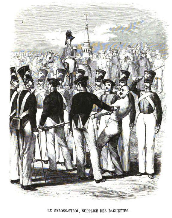 Gauntlet in Russia, "skvoz stroi" (Geoffroy, 1845)